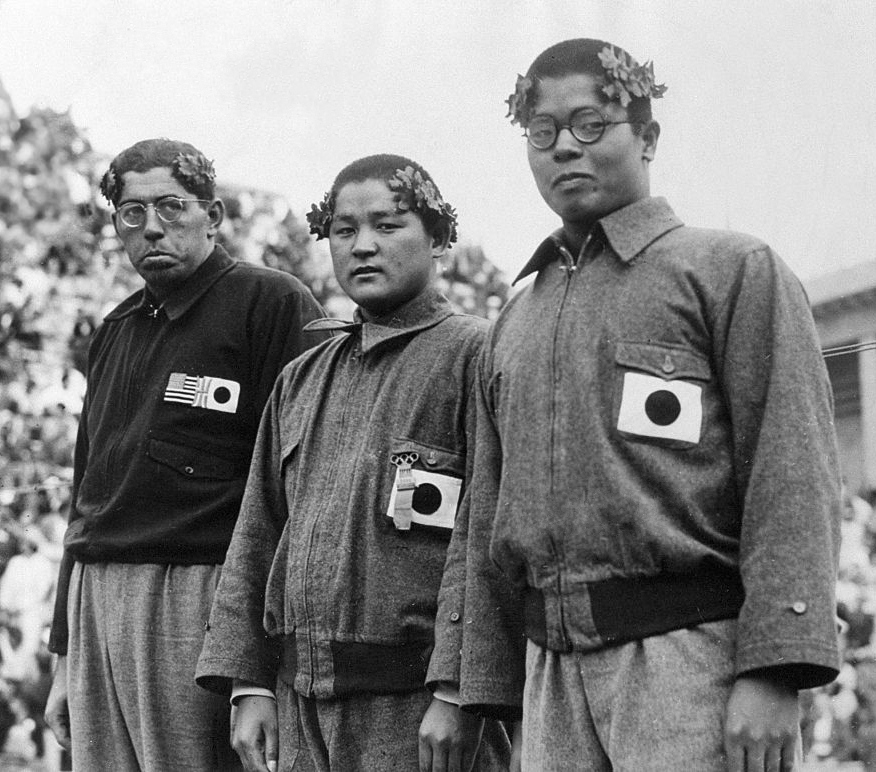 Silver medalist Jack Medica of the United States, gold medalist Noboru Terada of Japan and bronze medalist Shumpei Uto of Japan pose on the podium during the medal ceremony for Swimming Men's 1,500m Freestyle during the Berlin Olympic at Swimming Stadium on August 15, 1936 in Berlin, Germany